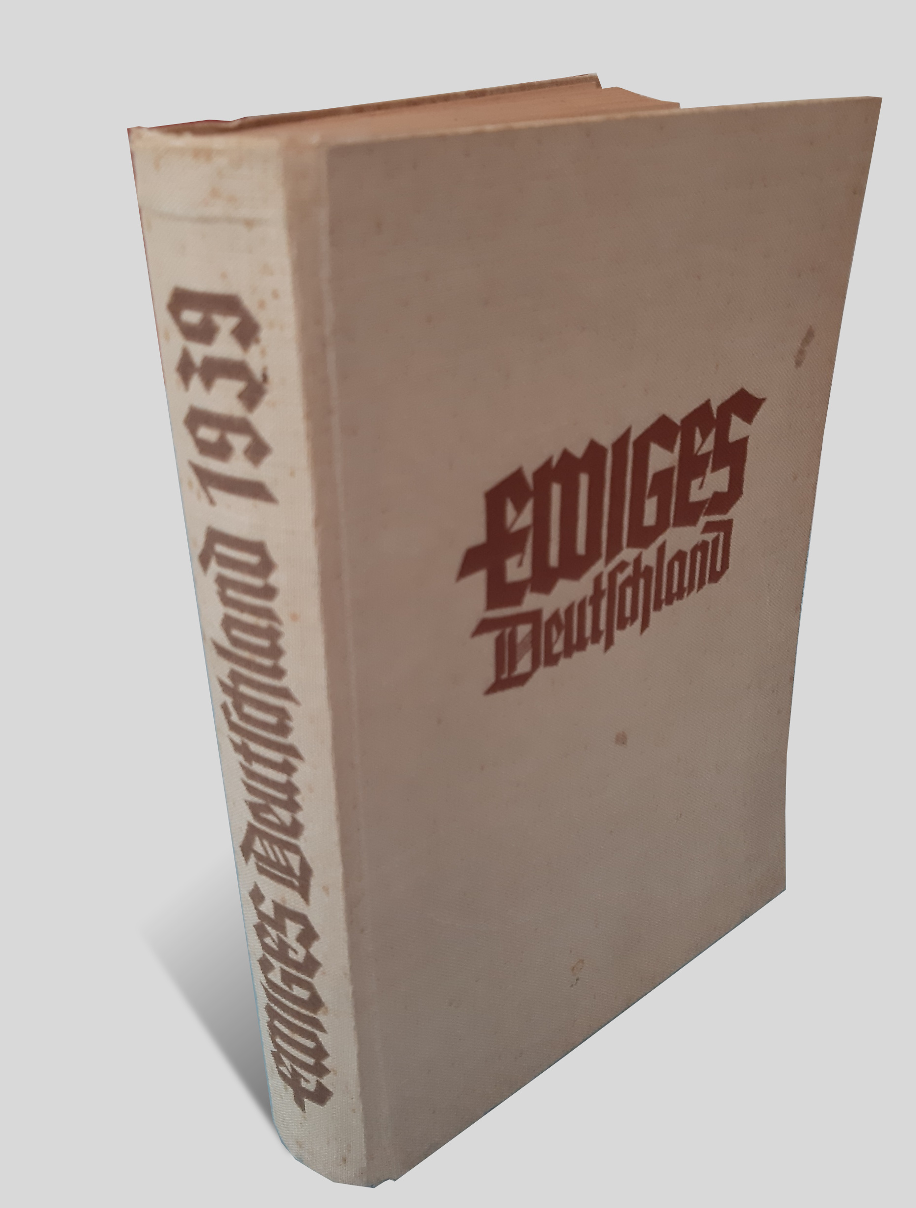 The book "Ewiges Deutschland" (eng: "Eternal Germany") was printed and distributed by the Winterhilfswerk and is an example of nazi propaganda